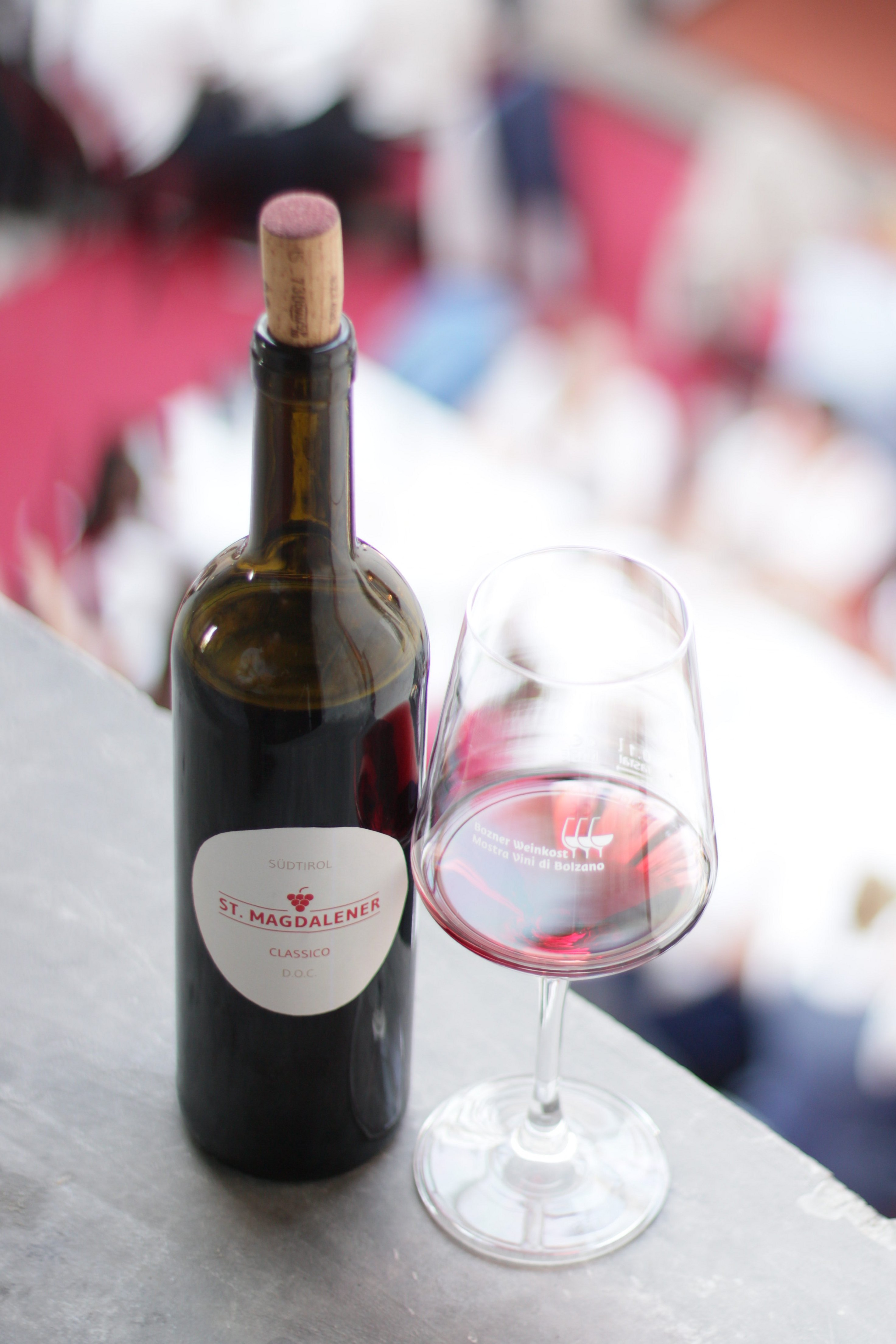 St. Magdalener Classico Red Wine Bottle with Glass at the Tasting Event in Castle Maretsch